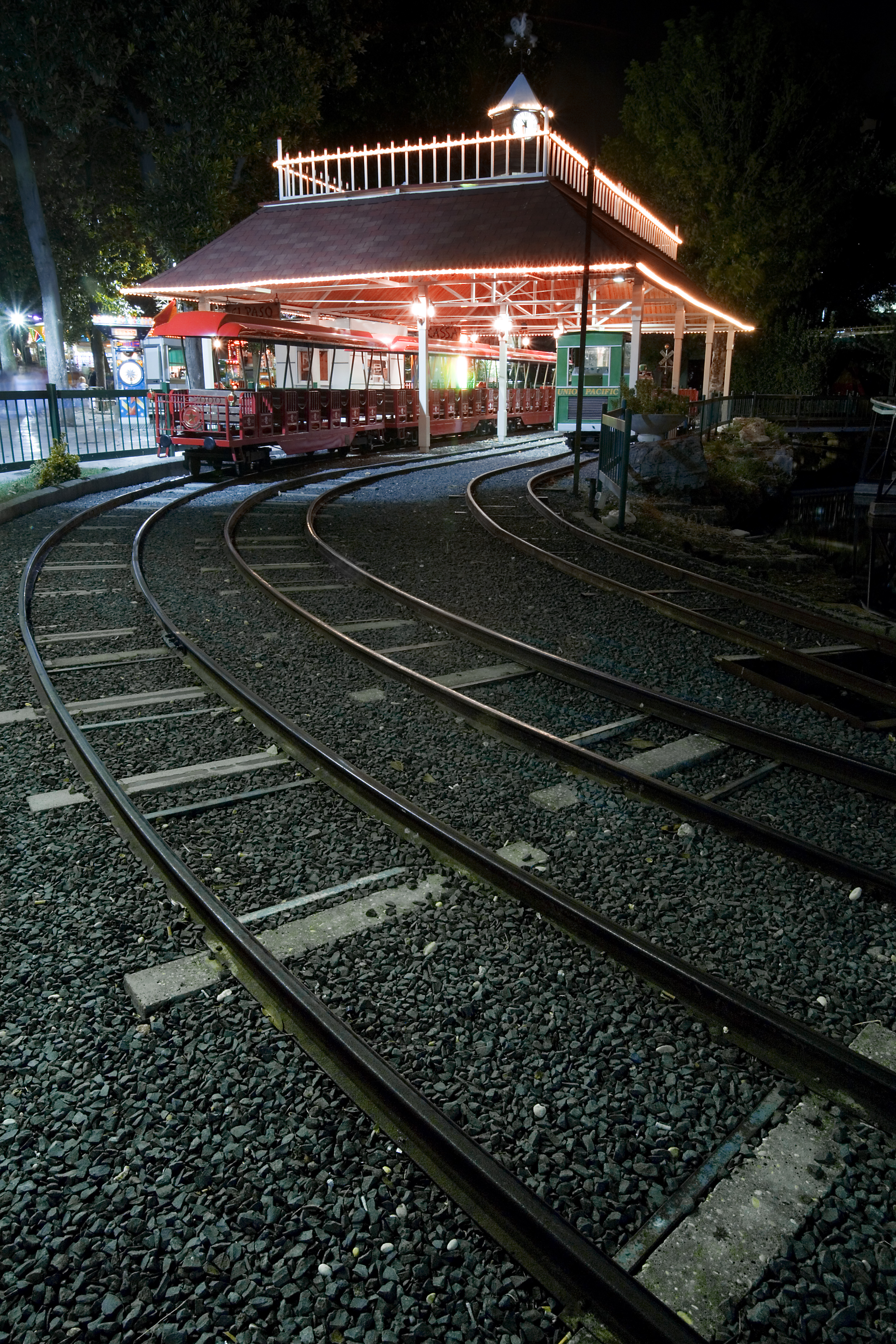 Mini train for children, Fun Fair at EUR, Rome, Italy